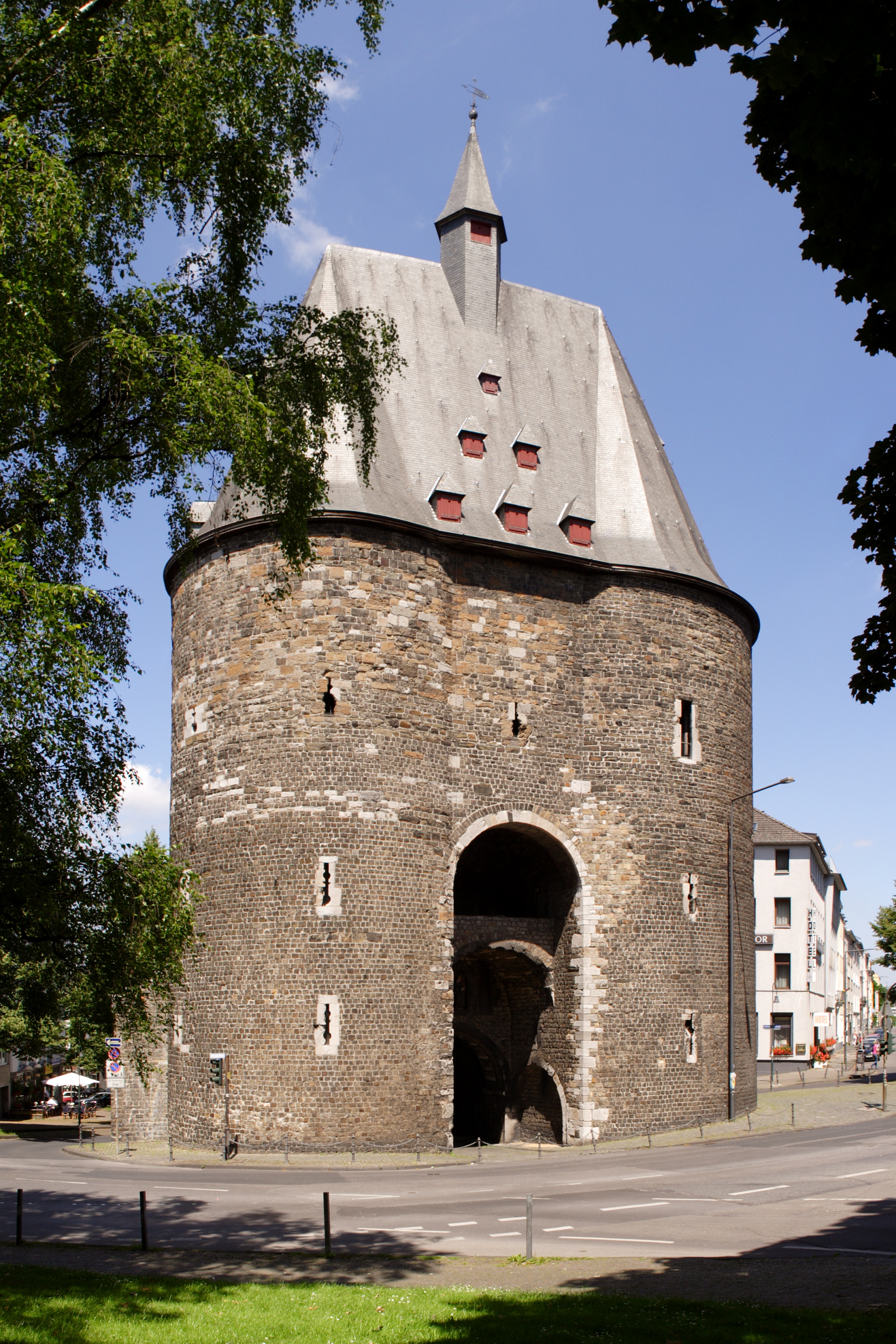 This image shows a building called Marschiertor. It once was part of the defensive wall of Aachen, Germany. The image is stitched from 3 frames.